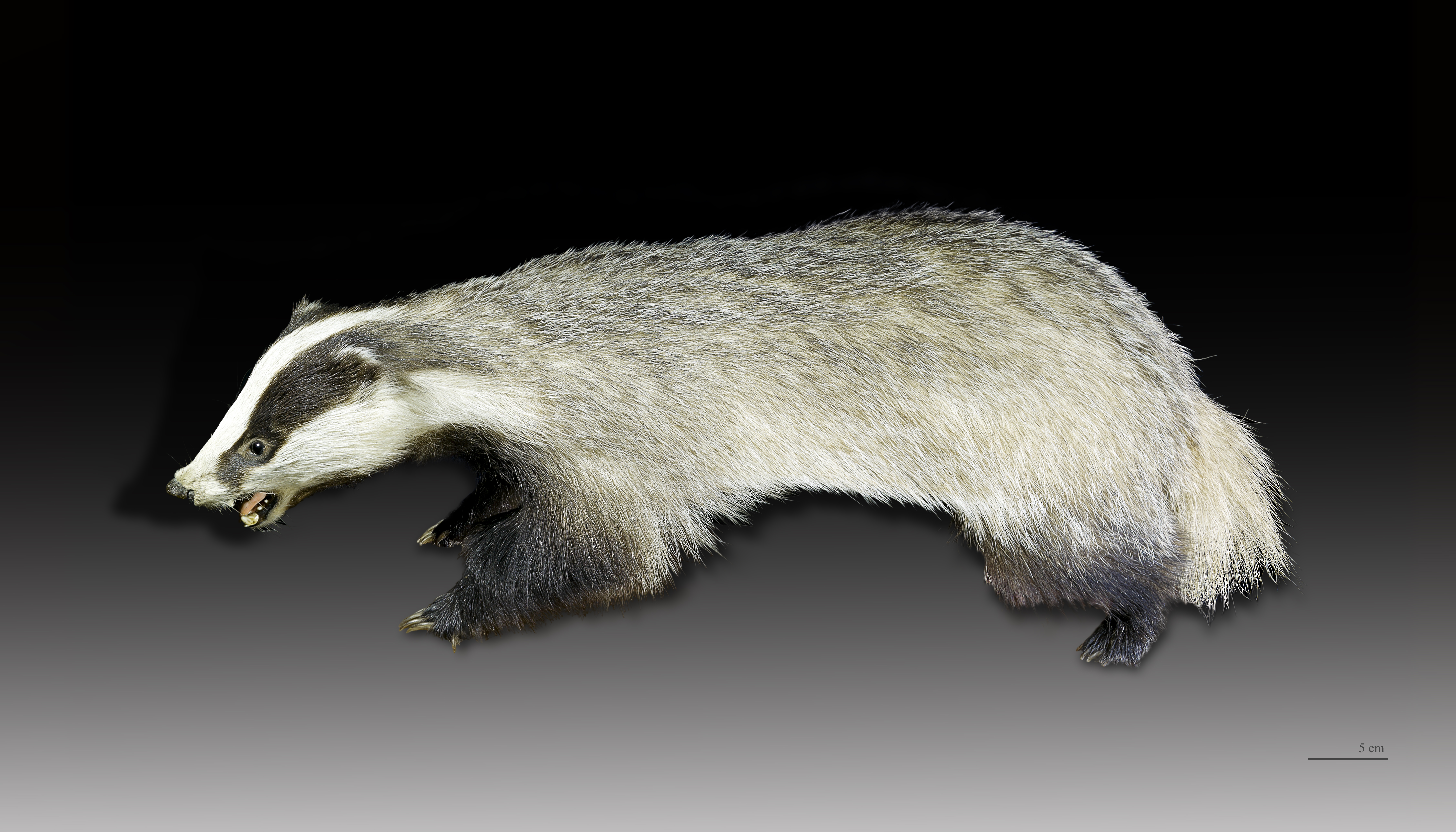 European Badger